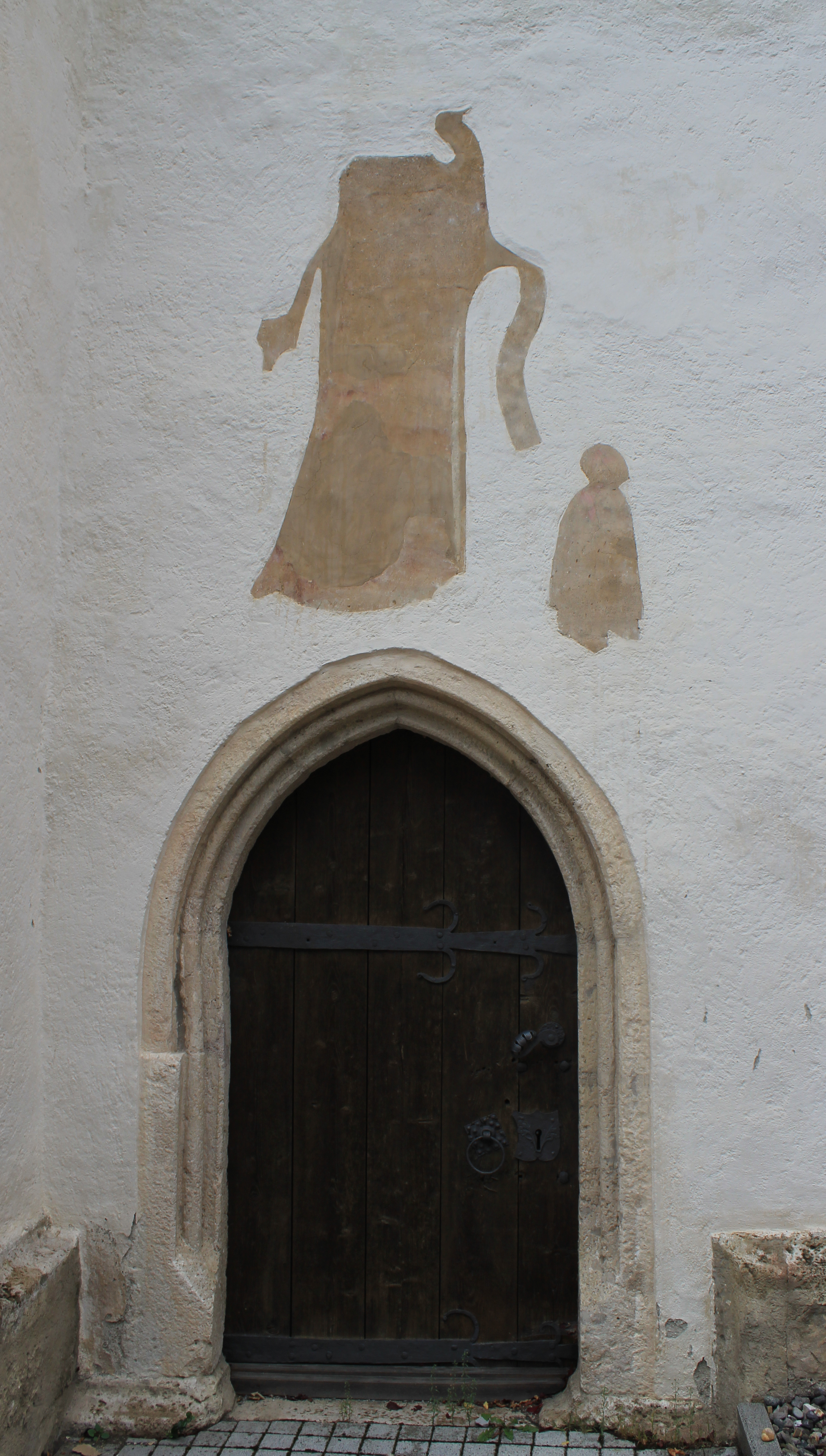 Parish church Möllbrücke in the community of Lurnfeld